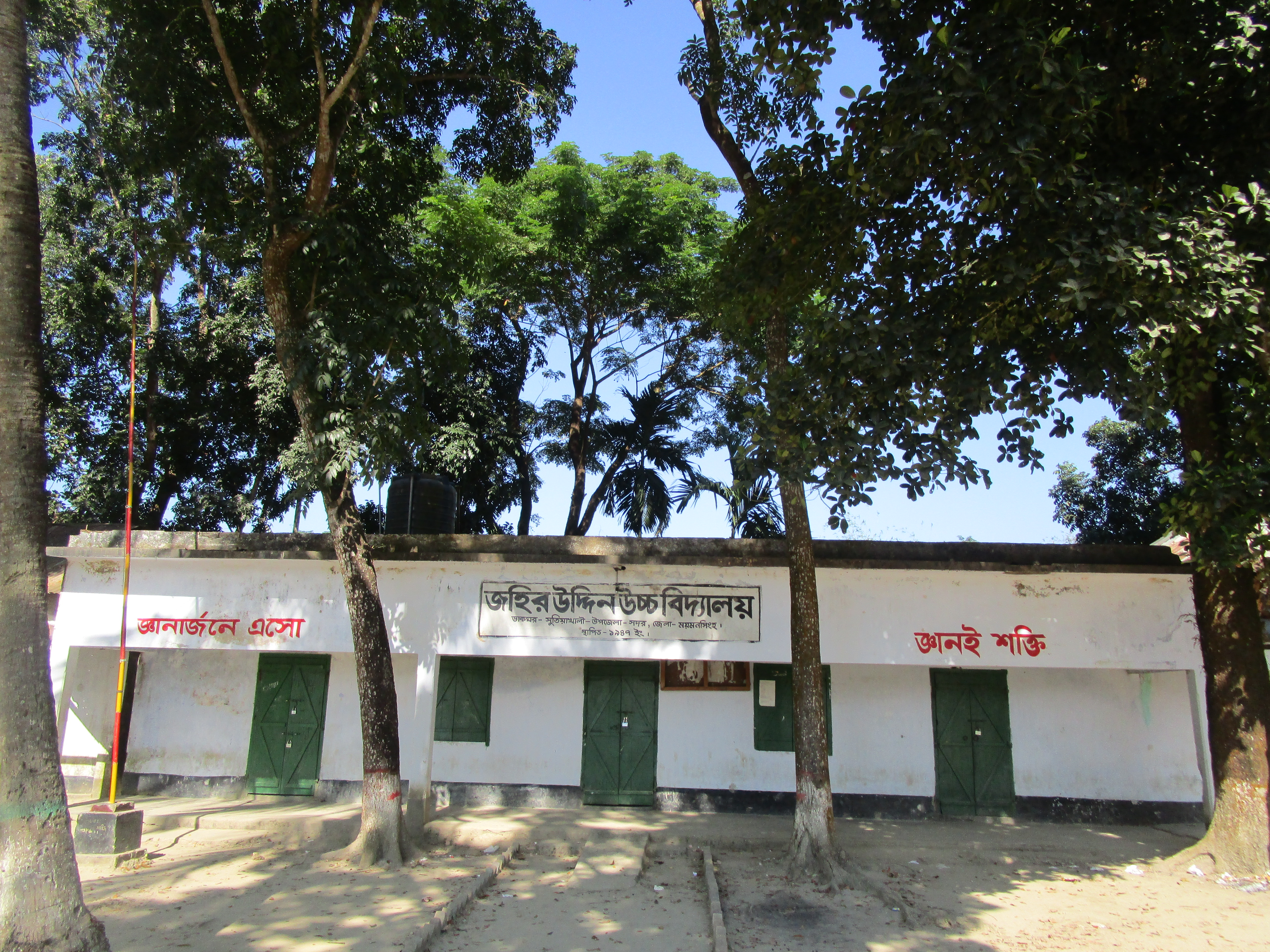 A building of Jahiruddin High School.